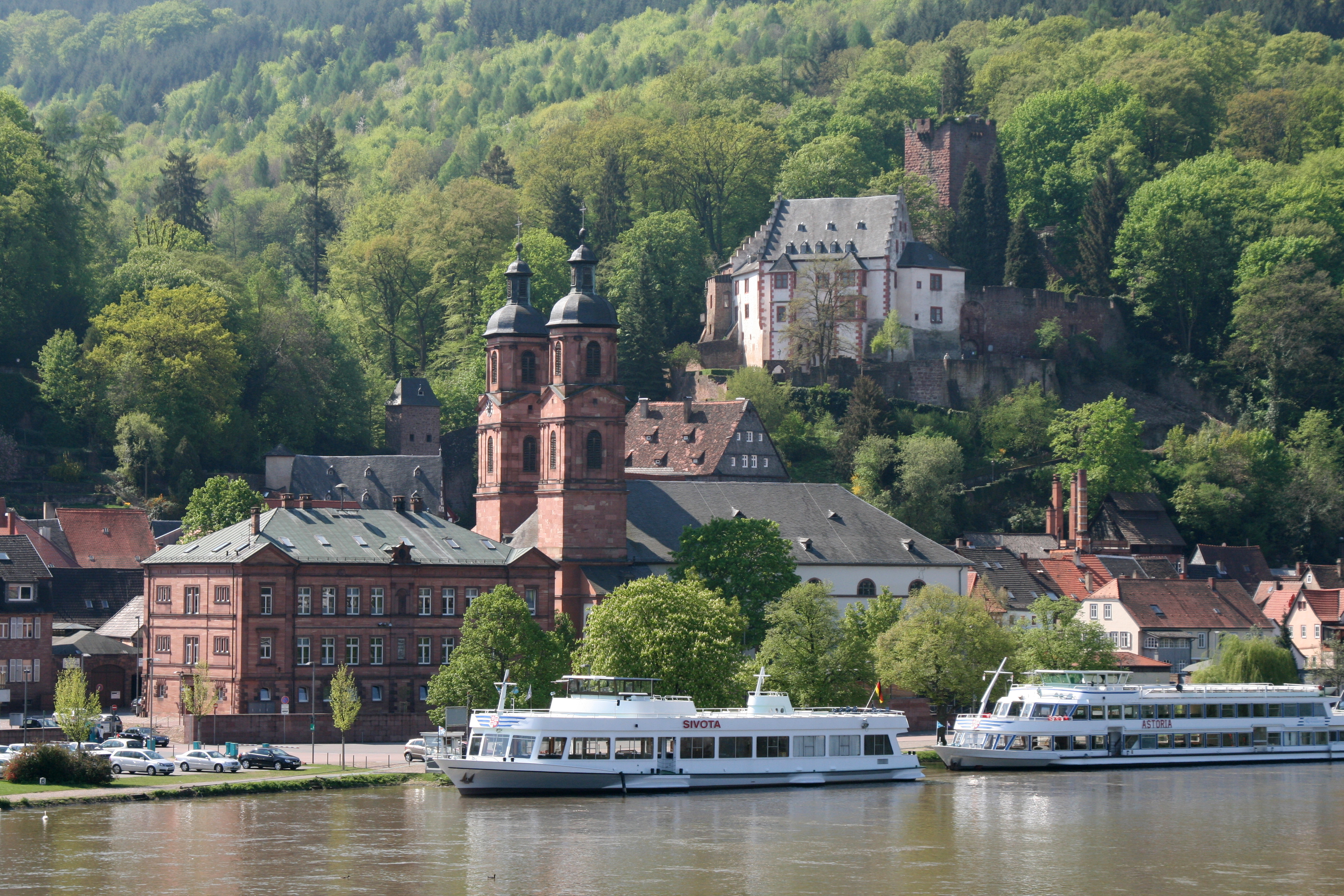 View across the Main river towards Miltenberg with castle and parochial church